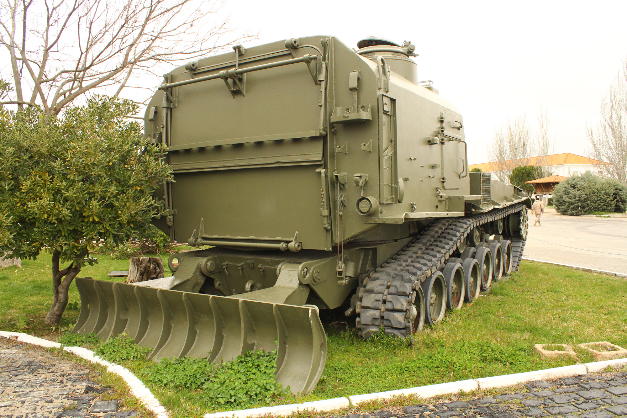 Obús autopropulsado M-55, con un cañón de 203 mm. Armored Units Museum of El Goloso M-55 self-propelled howitzer, with 203 mm canon.